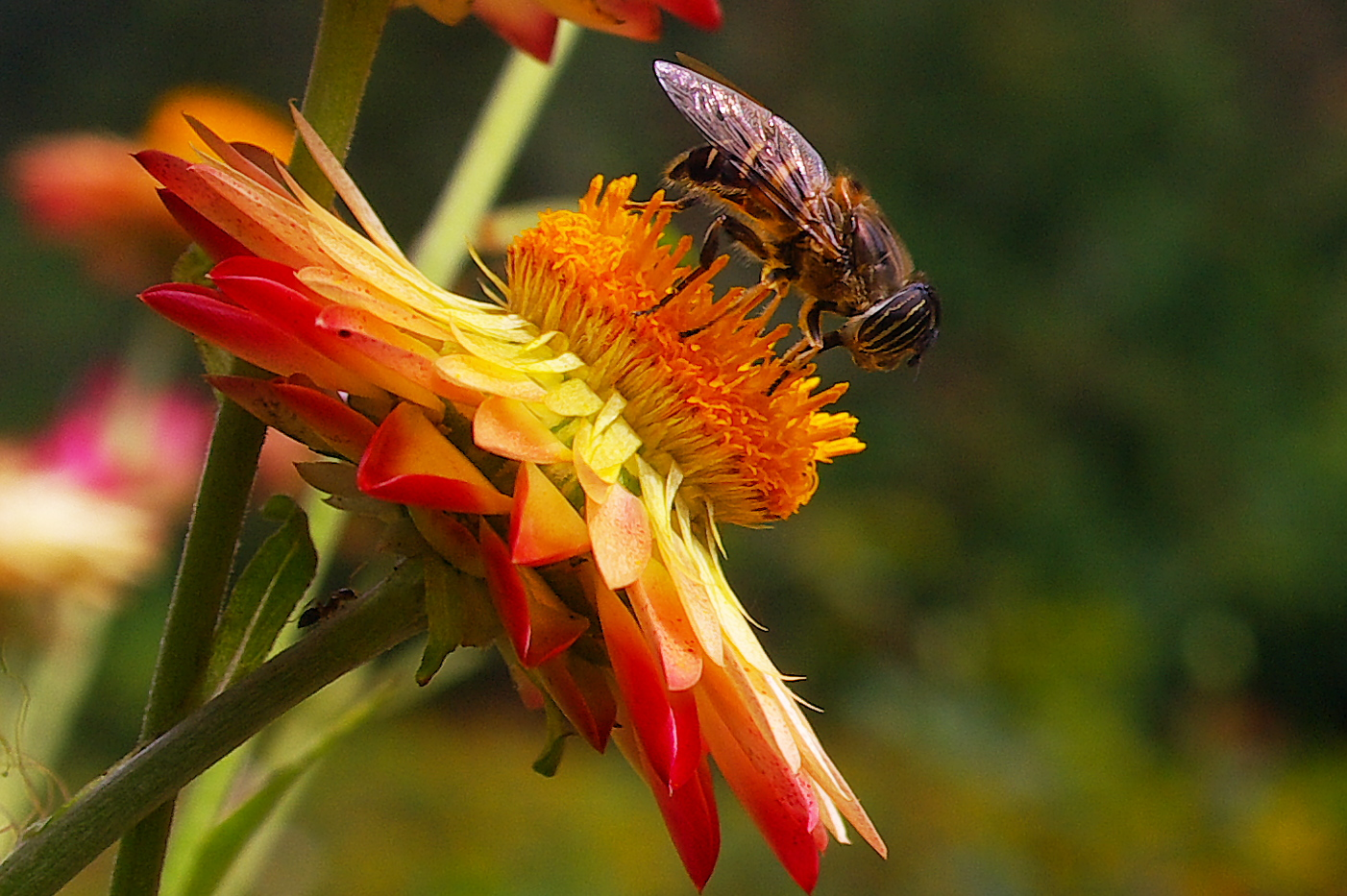 Breakfast time for the bee seen at SIMS park, Coonoor